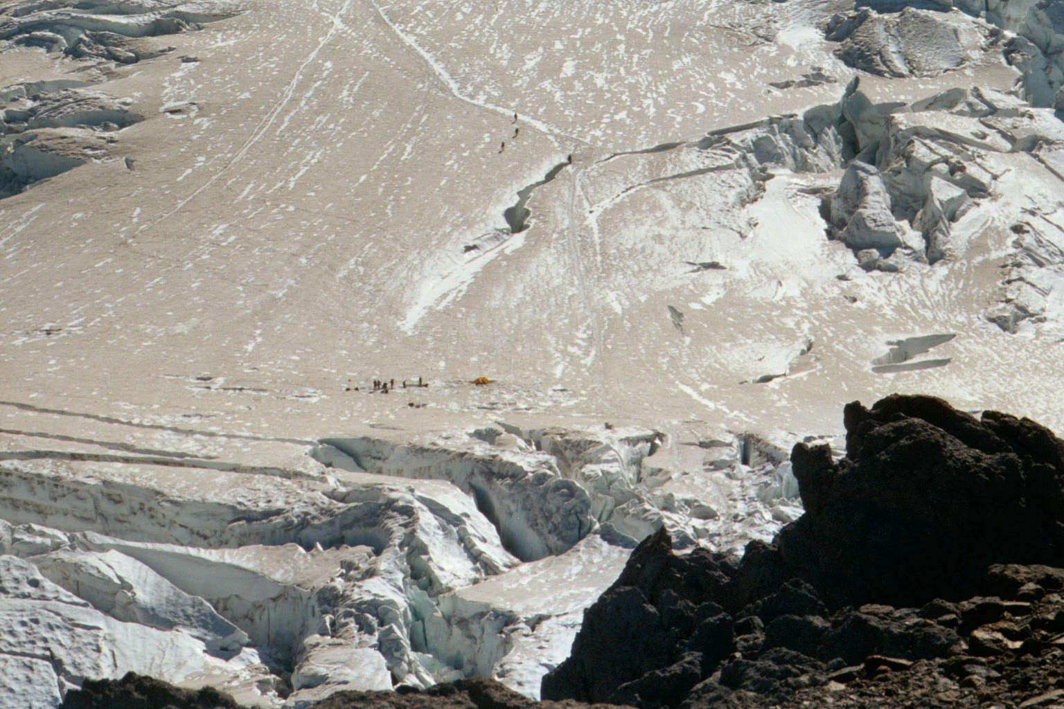 Emmons Flats Camp (9800 feet) and mountaineers on Emmons Glacier; large seracs and crevasses. The brown tint of the ice surface is due to dust from nearby rock slides on Russell Cliff and Curtis Ridge Viewpoint location: East Ridge of Steamboat Prow, Mount Rainier National Park Viewpoint elevation: 2930 meter (9600 ft) View direction: South-southwest Location source: Casio 1675 altimeter watch, notes, Acme Mapper Location Datum: WGS84 Camera: Olympus 35 mm